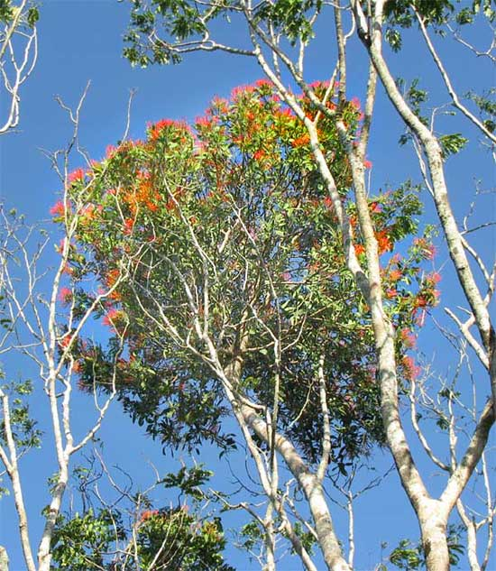 Semi-parasitic Psittacanthus plants, flowering lavishly on a tree